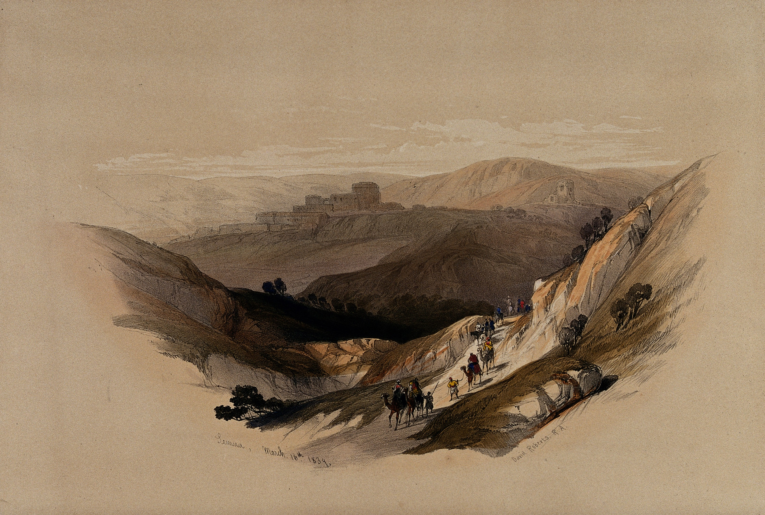 Ruins of Semua. Coloured lithograph by Louis Haghe after David Roberts, 1843. Iconographic Collections Keywords: David Roberts; Louis Haghe